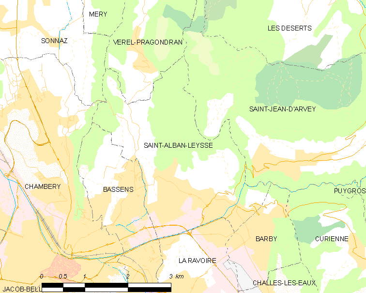 Map of French municipality